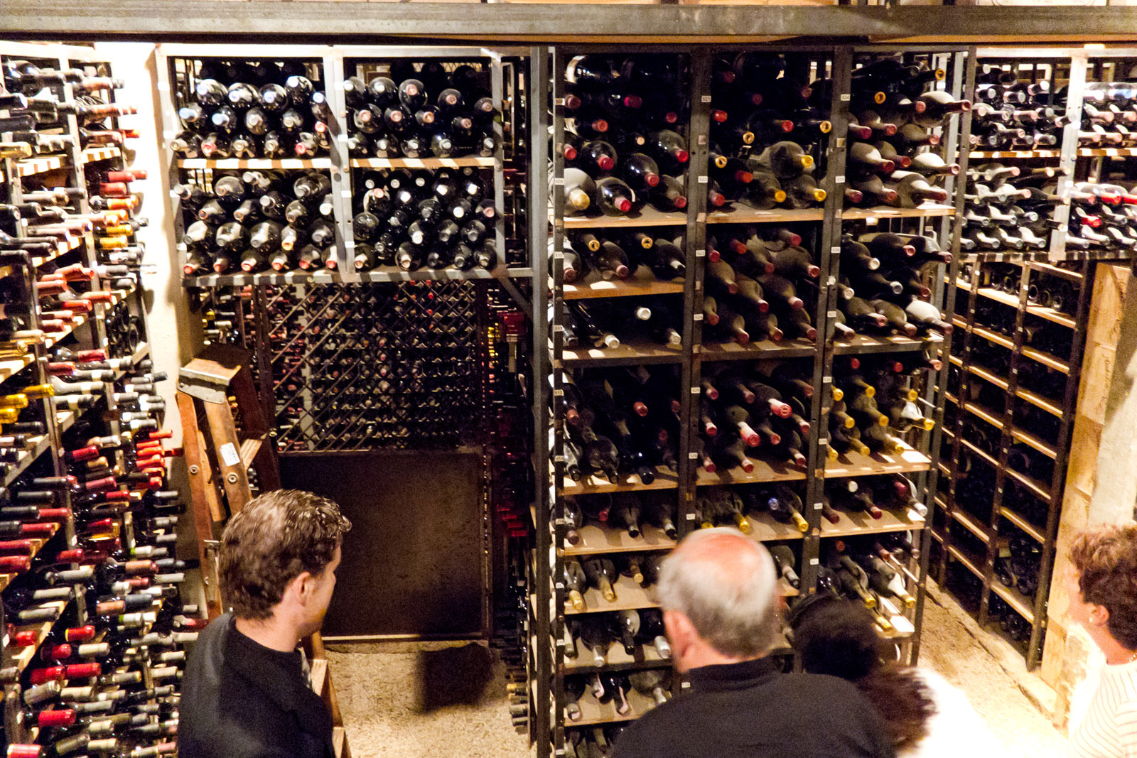 The wine cellar at Casanova in Carmel, CA. Supposedly over 25,000 bottles.